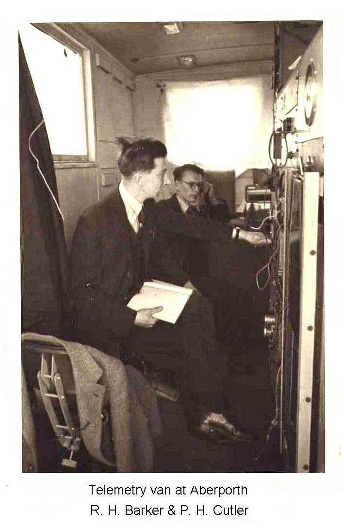 This photo was taken at the end of WW2 at Ynylas in Wales whilst testing telemetry. The UK guided weapons programme came into being in 1944. The first experimental system was called LOPGAP an acronym for Liquid Oxygen Propelled Guided Anti-aircraft Projectile